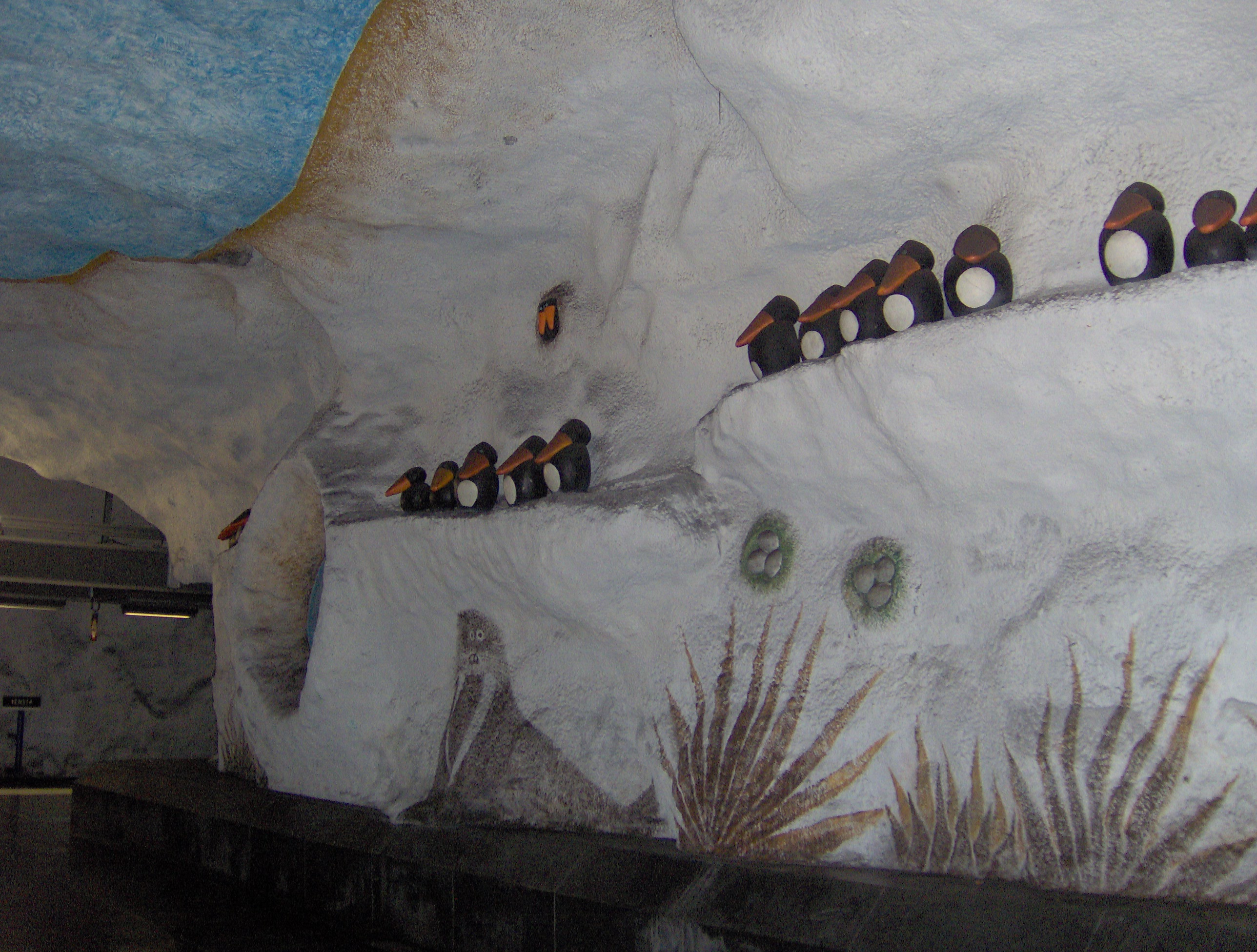 Artwork at the Stockholm metro station Tensta.